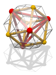 Semitransparent model of a rhombic tricontahedron with an inscribed tetrahedron and cube.